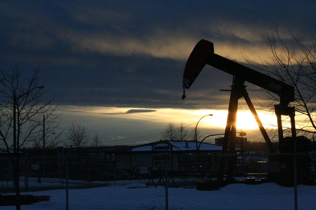 Pump jack at Drayton Valley, Alberta